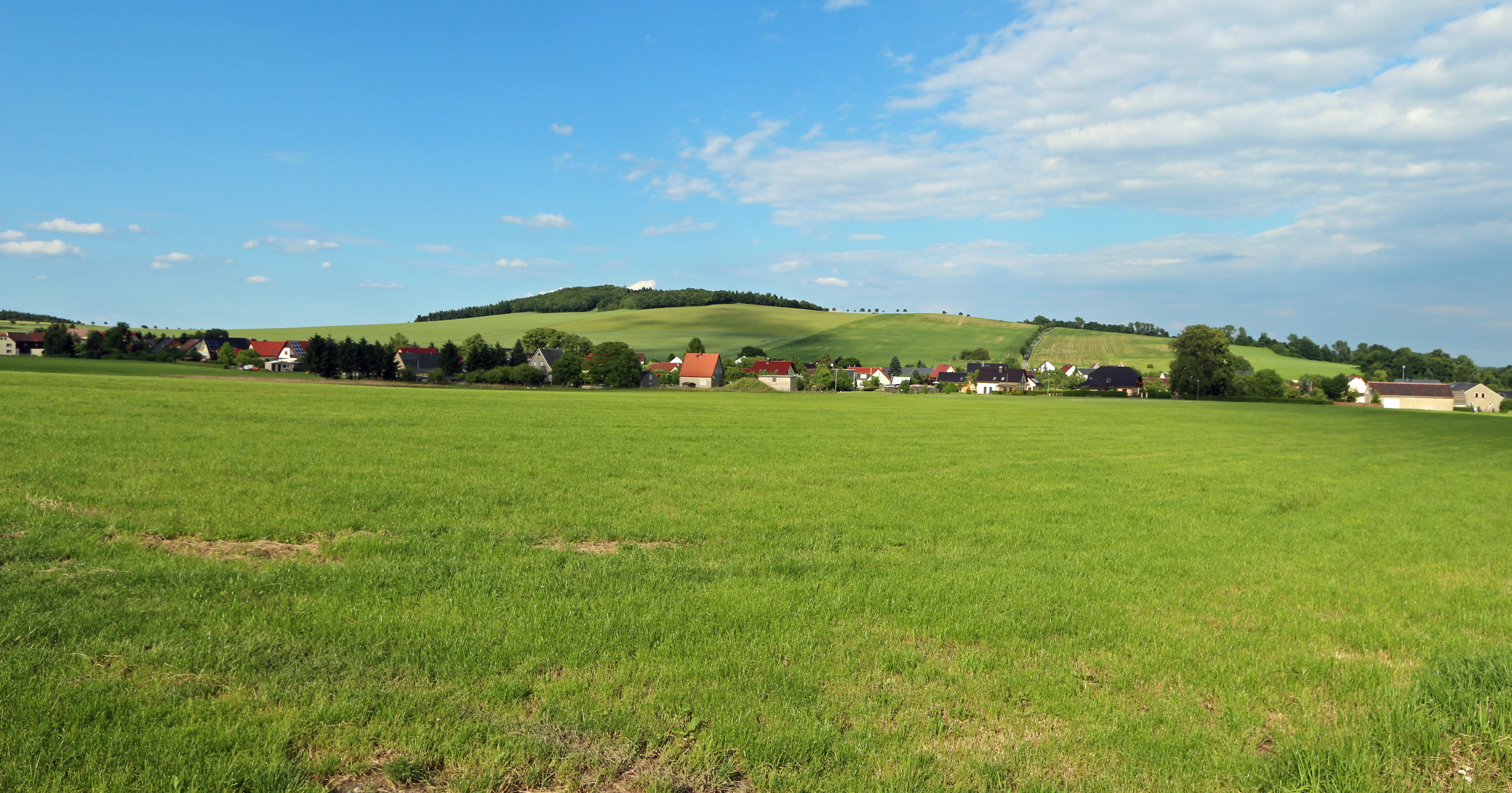 Hutberg (Kamenz, Saxony, Germany)